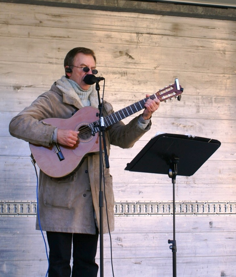 Week 2. The Kitchenware-Revolution in Iceland was organize by Hördur Torfason and "Raddir Fólksins". It started in the wake of the collapse of the banking system followed be the decimation of Icelandic economy in the beginning of October 2008. It resulted in the resignation of Geir H. Haarde and his cabinet on January 26. 2009. The protest meetings were held every Saturday at the Austurvöllur square in front of Alþingishús - the Icelandic parliament house. The first meeting (week 1) was dated Saturday 11. October 2008. The 16th meeting dated January 24. 2009